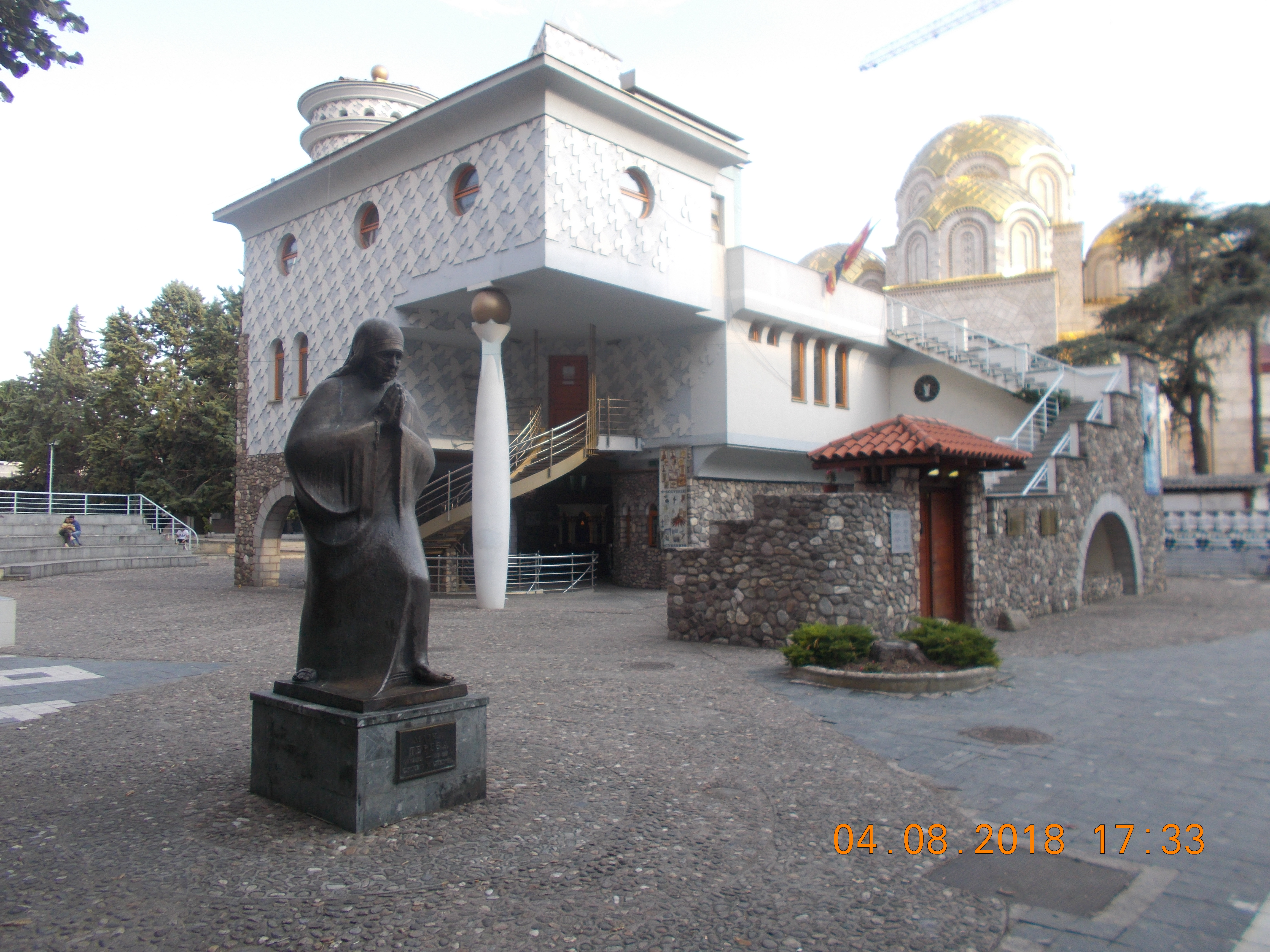 Mother Teresa Memorial house near Macedonia Square in skopje.